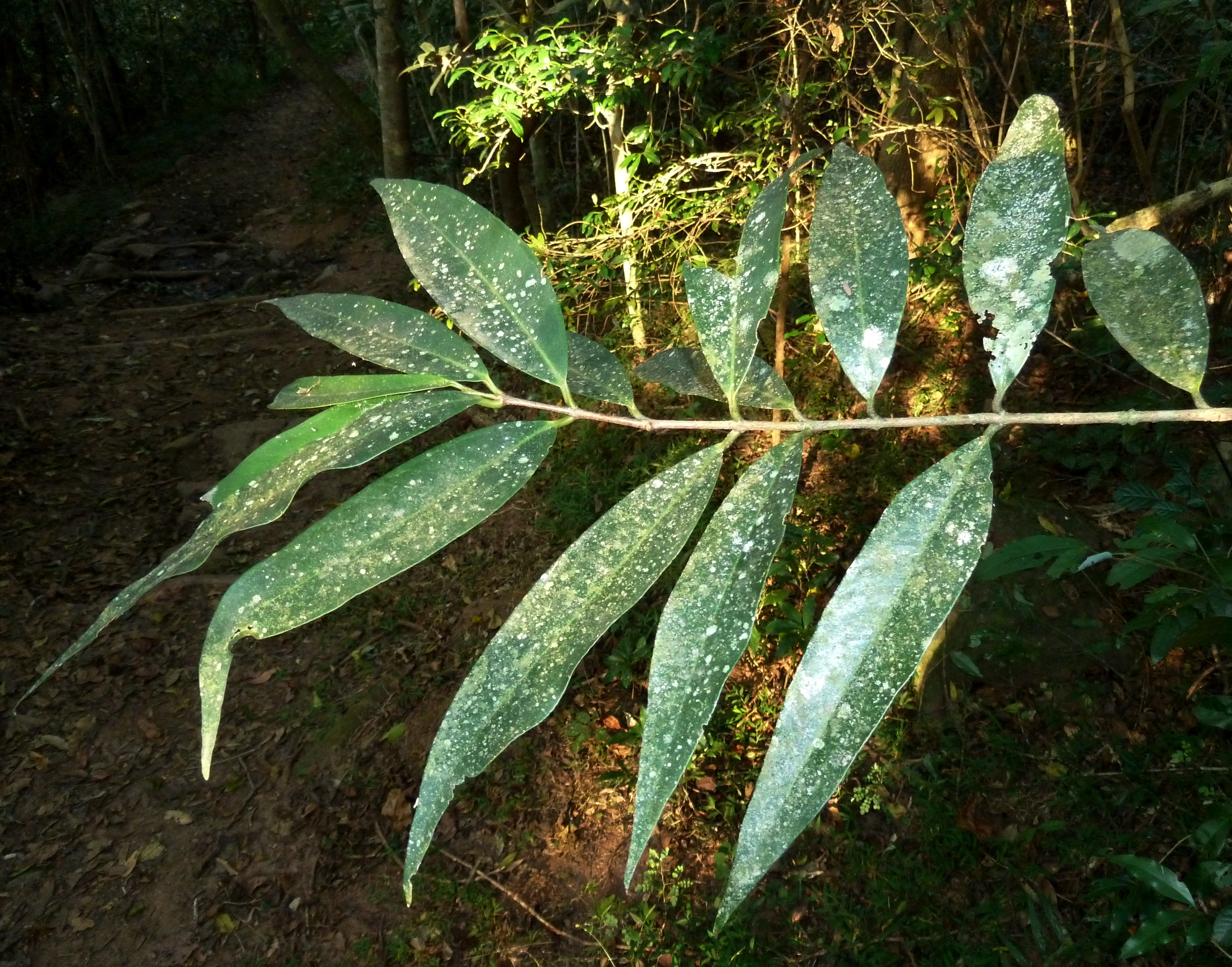 Foliage of a Water elder in Krantzkloof Nature Reserve, KwaZulu-Natal